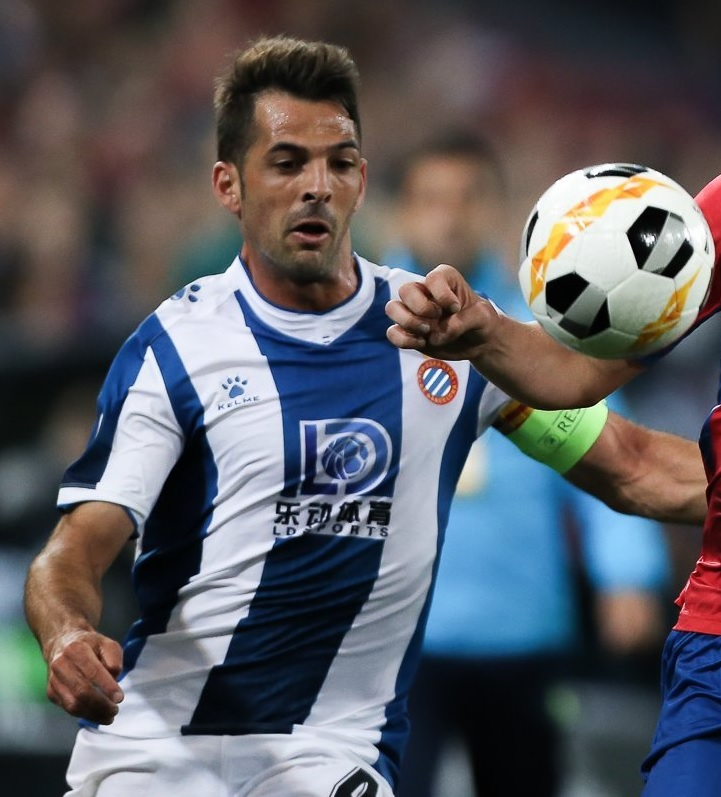 Víctor Sánchez with RCD Espanyol in an Europa League game against PFC CSKA Moscow.